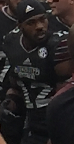 J. T. Gray